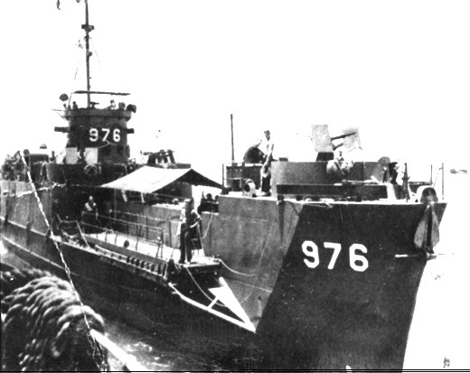 LCI(L)-976, date and place unknown.